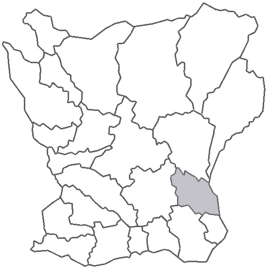 Map describing the location of Albo Hundred in the province of Skåne, Sweden.